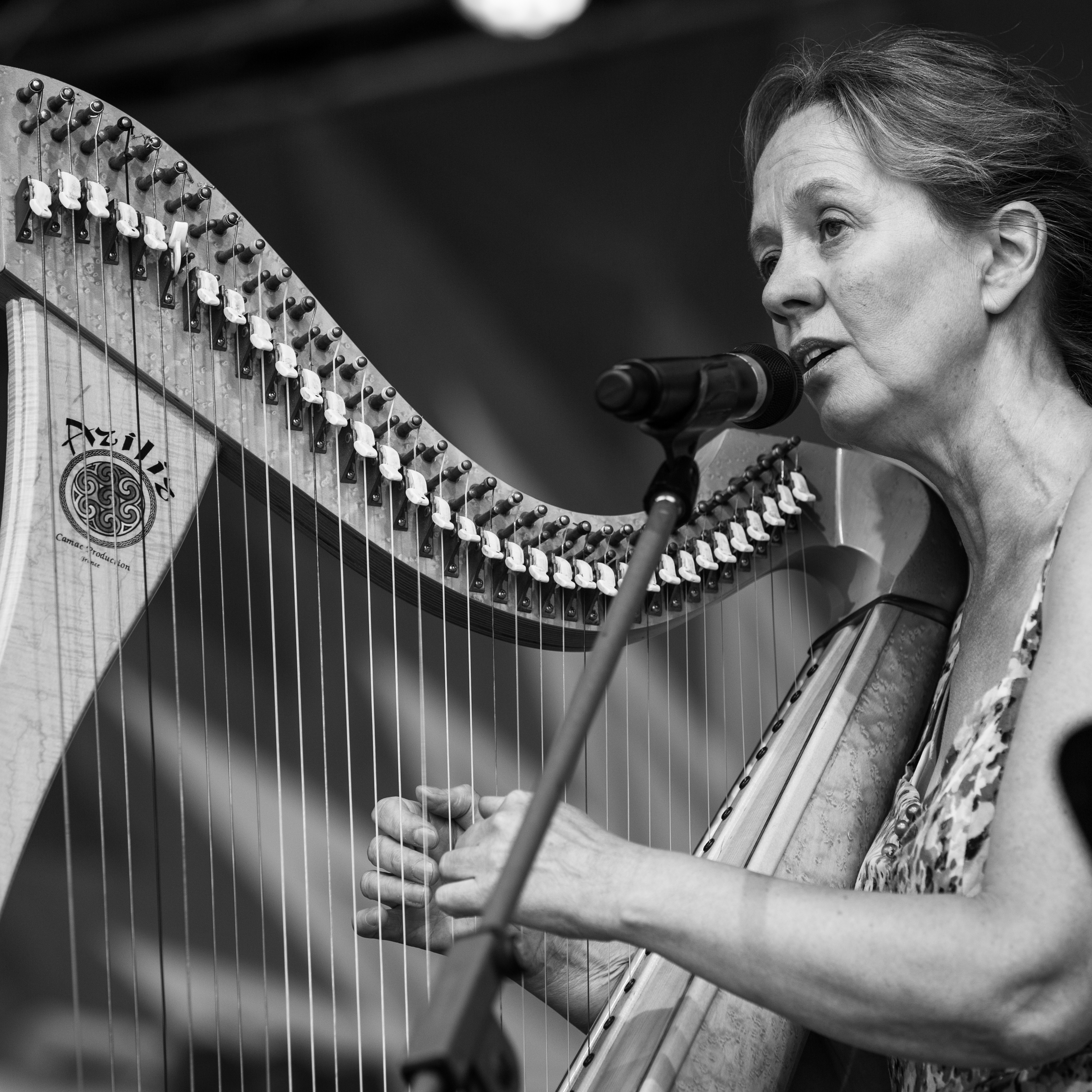 Scottish folk musician Patsy Seddon at the Rudolstadt Festival 2017